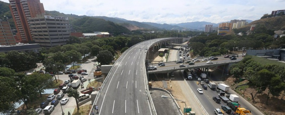 Valle Coche Highway in 2015 Caracas Venezuela 4